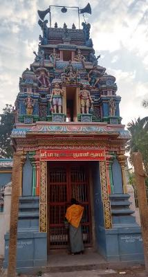 Thanjavur chinna arisikkara street murugan temple தஞ்சாவூர் சின்ன அரிசிக்காரத்தெரு முருகன் கோயில்